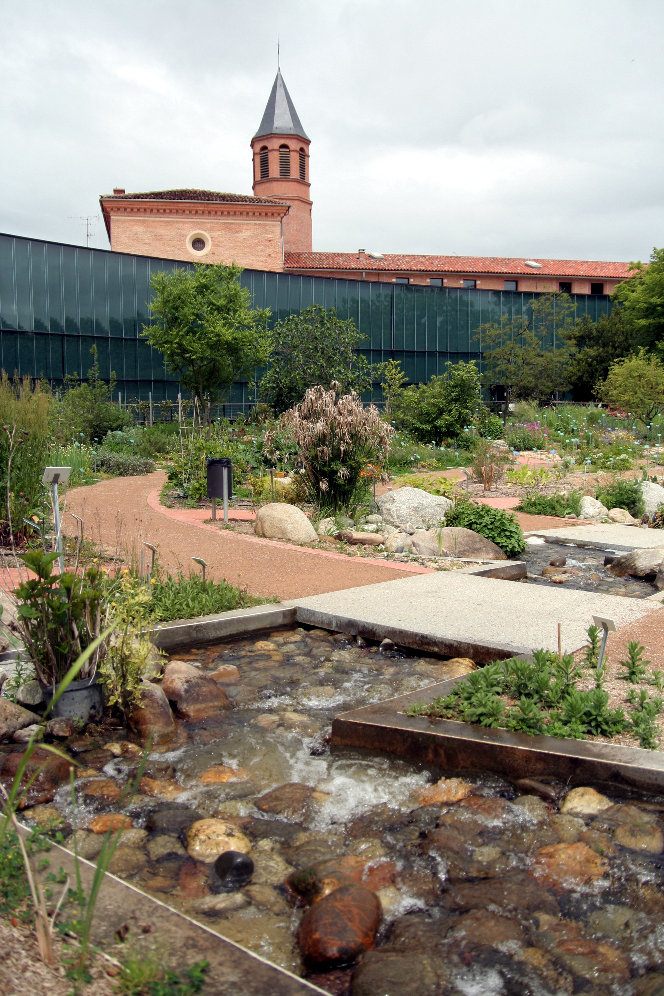 Natural history museum of Toulouse.